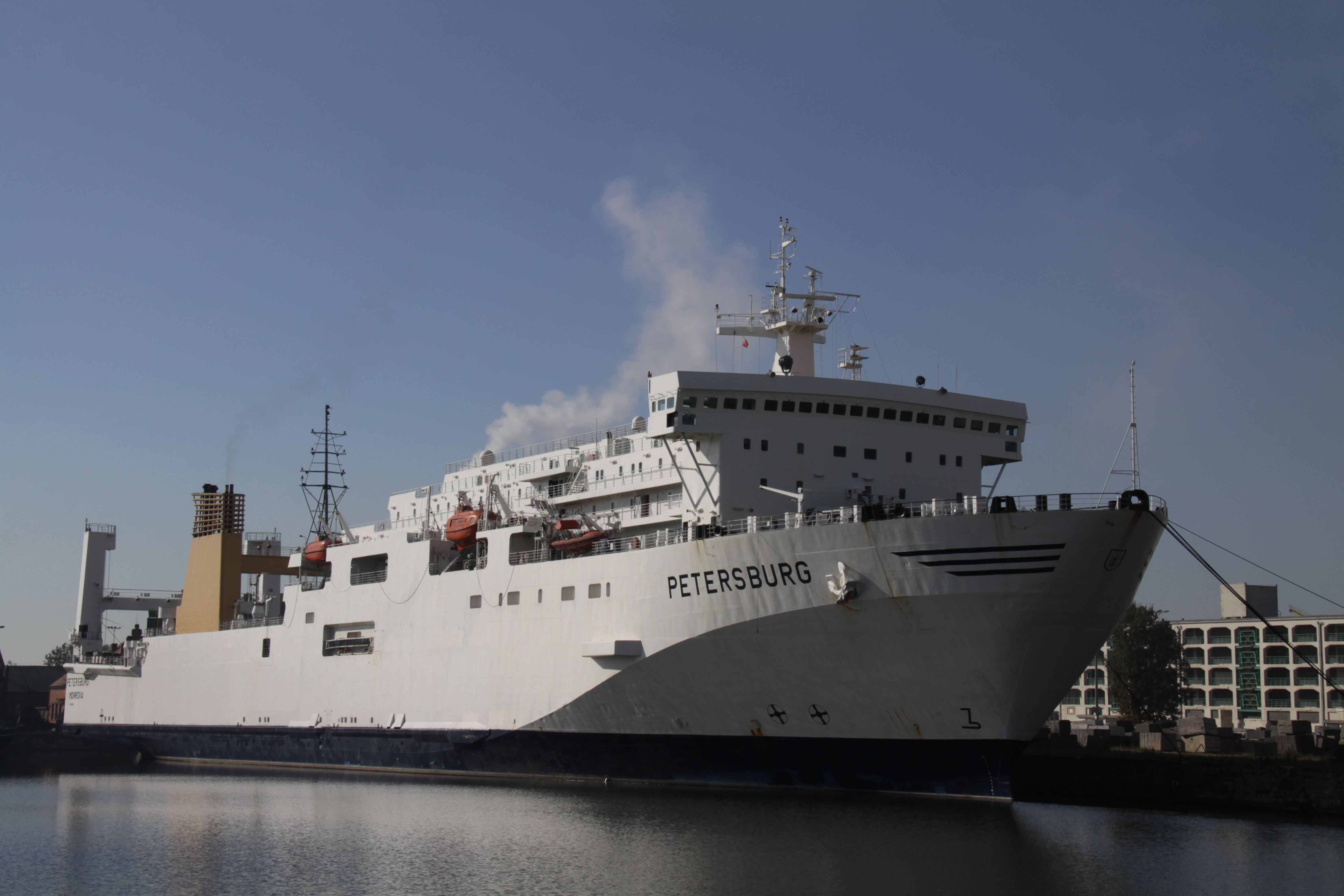 Ferry Petersburg at quay in Stettin